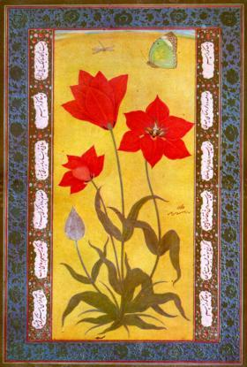 Painting of a flower by Mansur, Mughal court painter